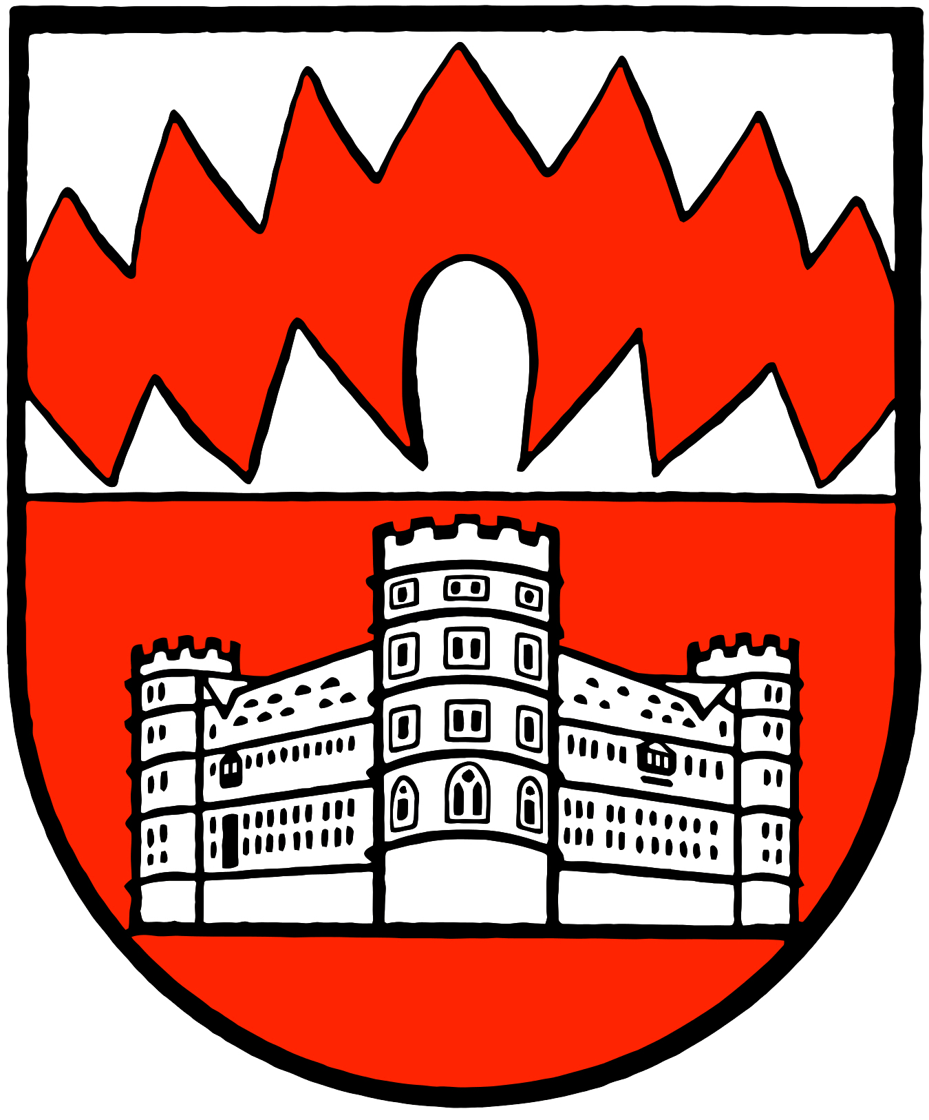 Coat of arms of Amt Büren-Land (Germany)